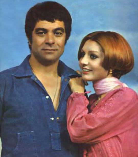 "Googoosh" & "Behruz Vosughi", published on the cover of an Iranian magazine, before 1979.